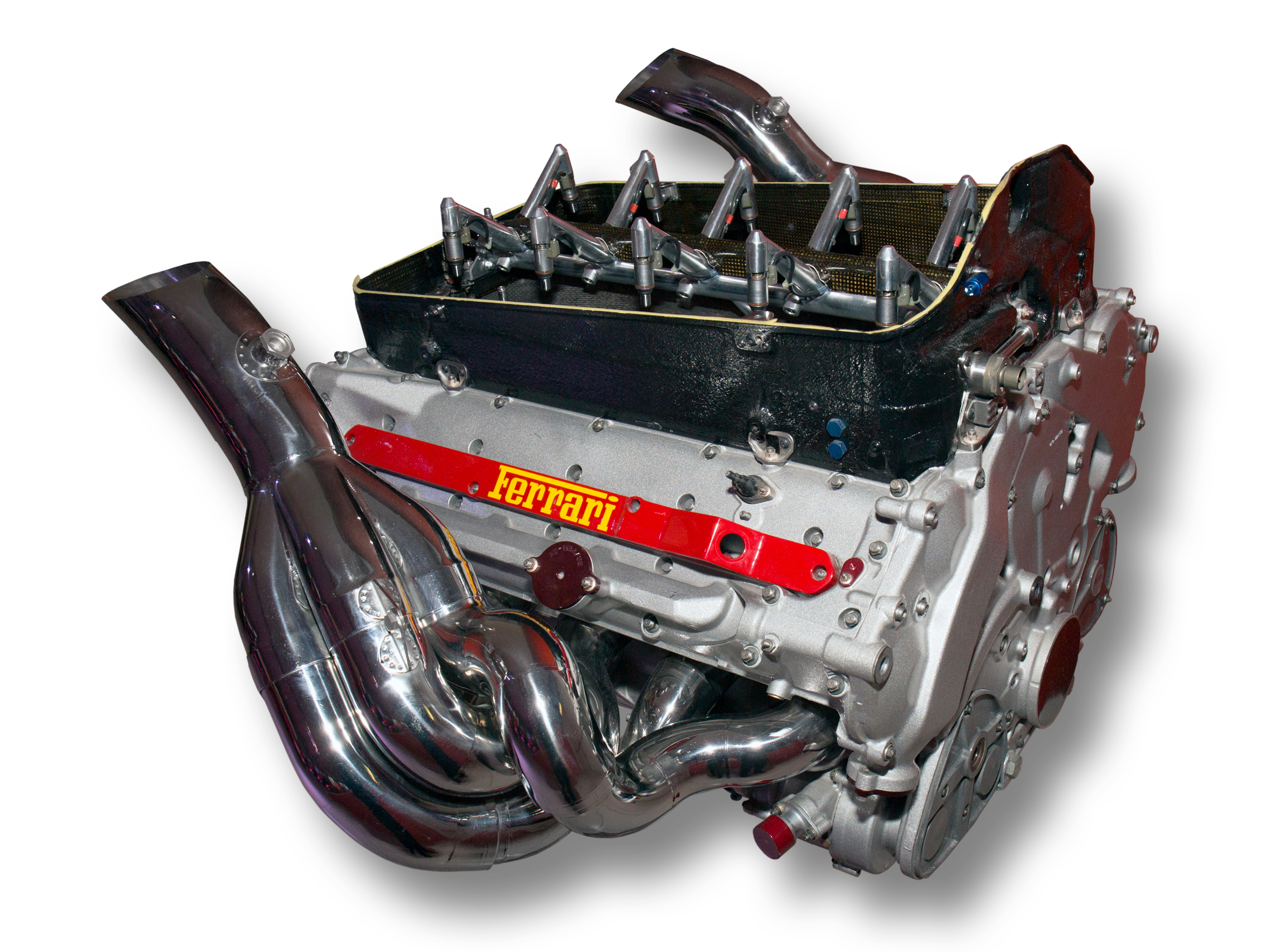 Ferrari Tipo 050 engine (2001) of the Ferrari F2001